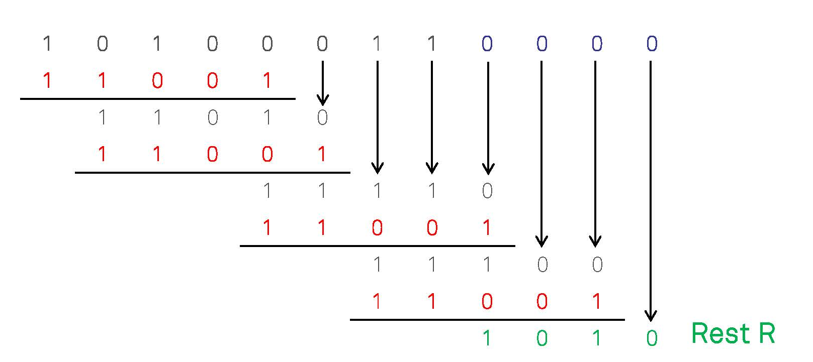 cyclic reduncandy example